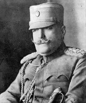 Stevan Hadžić